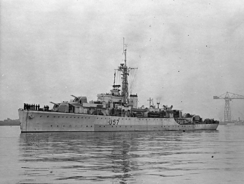 Photograph of British sloop HMS Black Swan.